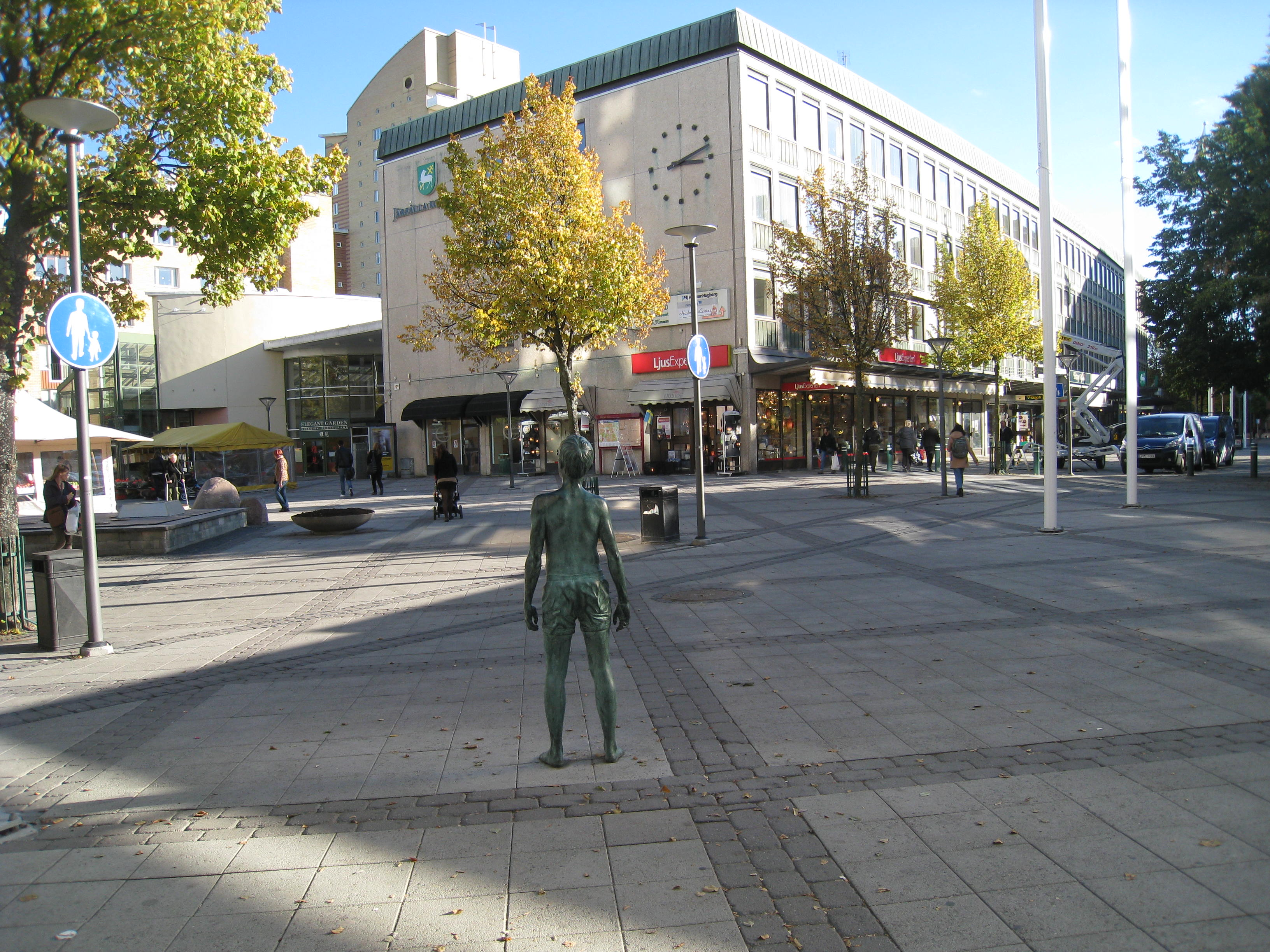 "The boy", sculpture in bronze by Lars Nilsson, at Riddarplatsen in Jakobsberg, Järfälla municipality.